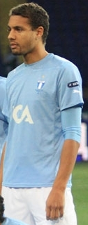 Mathias Ranegie of Malmö FF